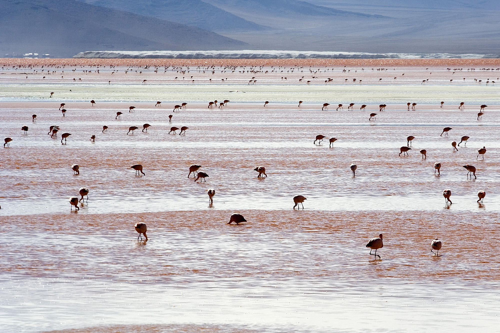 Andean Flamingos (Phoenicopterus andinus), Laguna Colorada, Bolivia.